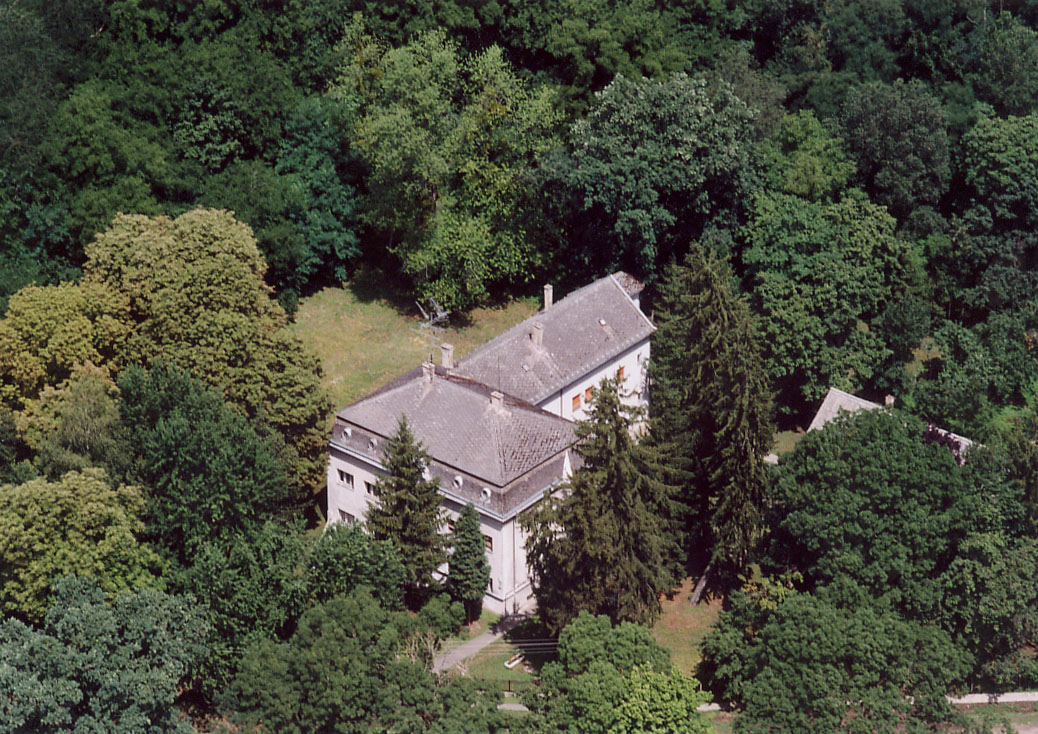 Palace - Babócsa - Hungary - Europe (Prinke Mansion)